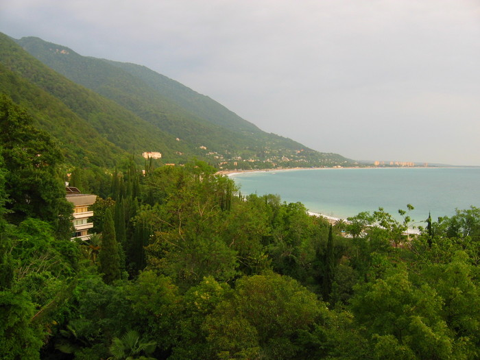 Gagra. Аbkhazia